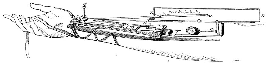 Sphygmograph according to Marey